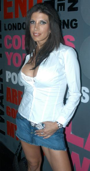 Pornographic actress Shay Sights.